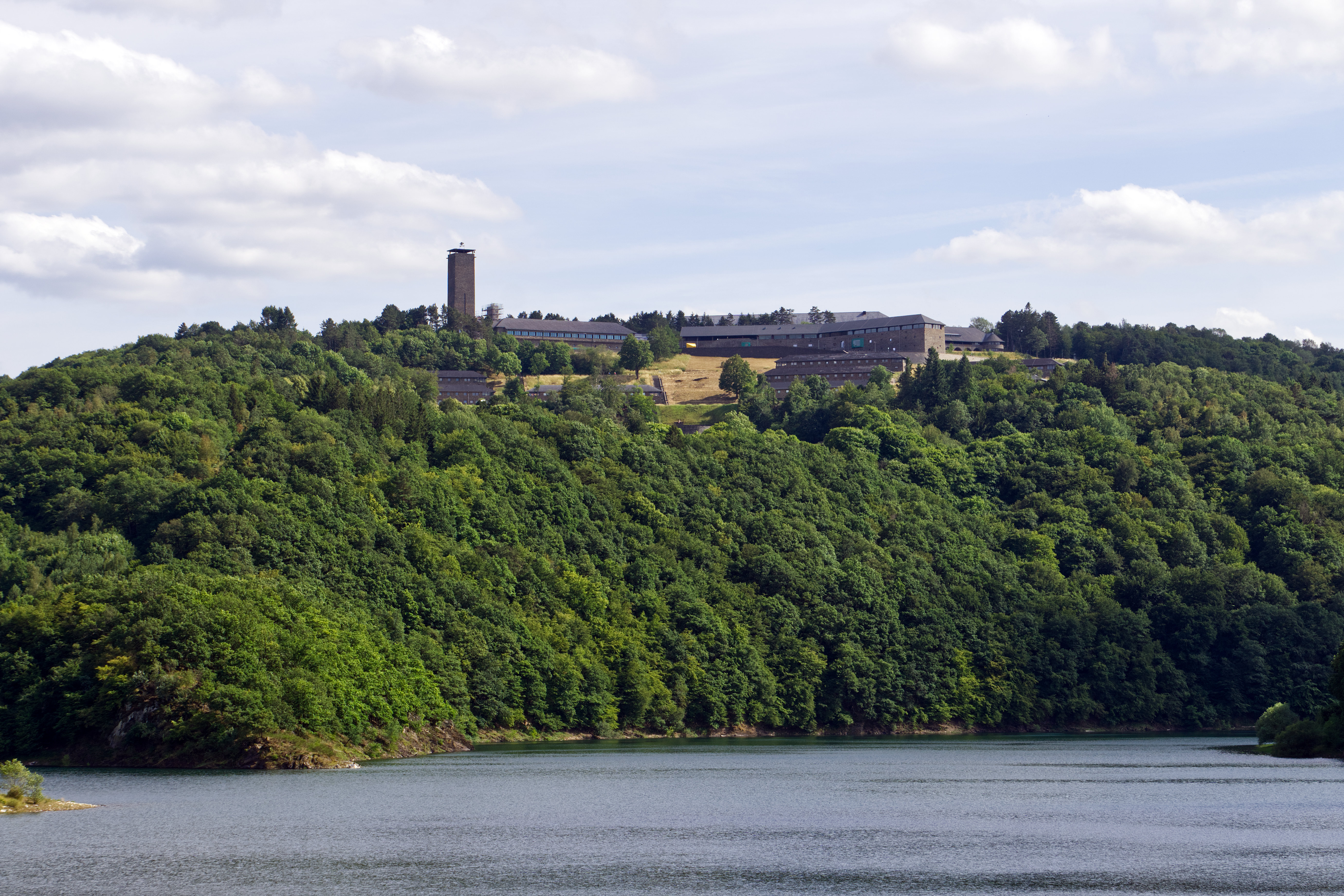 Ordensburg Vogelsang, a former Nazi educational facility in the Eifel mountains near Gemünd, Schleiden, Germany